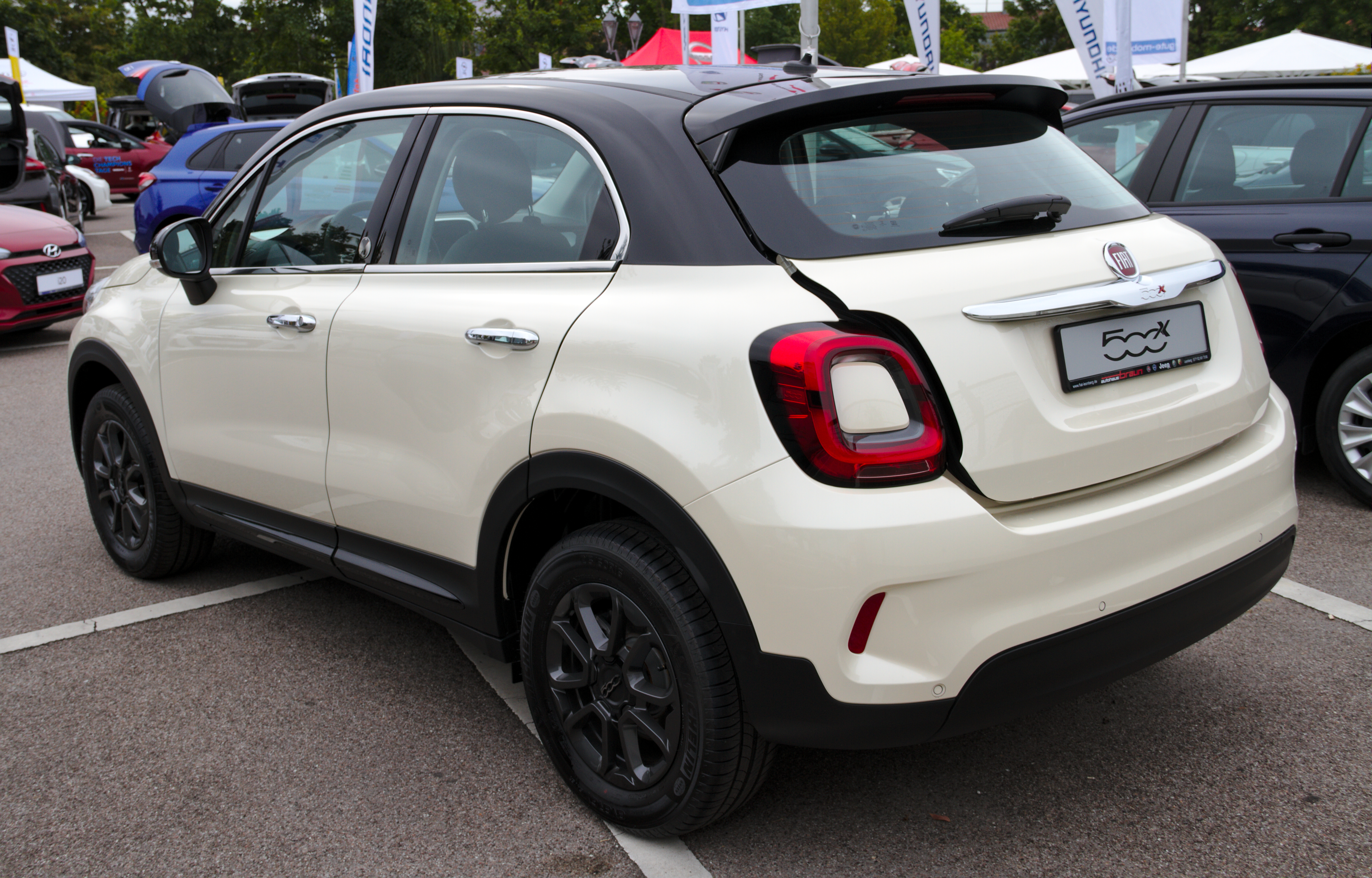 Fiat_500X at Leonberger Autoschau 2019